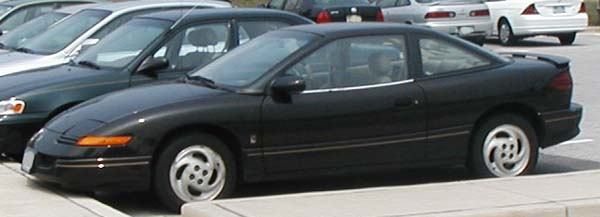 1991-1996 Saturn SC photographed in USA.